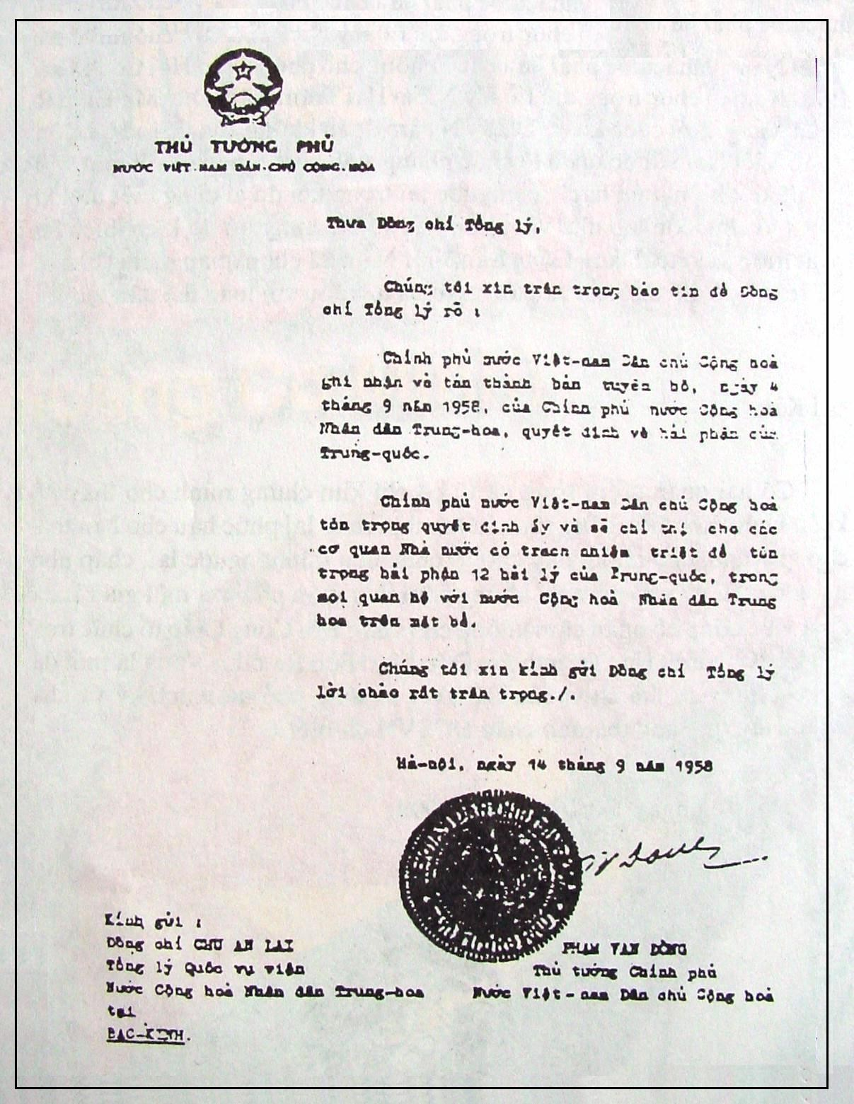 In 1958, the People's Republic of China issued a declaration defining its territorial waters which encompassed the Spratly and Paracel Islands. North Vietnam's prime minister, Pham Van Dong, sent a diplomatic note to Zhou Enlai, stating that "The Government of the Democratic Republic of Vietnam respects this decision." The diplomatic note was written on September 14 and was publicized on Nhan Dan newspaper(Vietnam) on September 22, 1958. The content of Pham Van Dong's diplomatic note to Premier Zhou Enlai is as follows: "Comrade Prime Minister, We have the honour to bring to your knowledge that the Government of the DRVN recognizes and supports the declaration dated 4th September, 1958 of the Government of the PRC fixing the width of the Chinese territorial waters. The Government of the DRVN respects this decision and will give instructions to its State bodies to respect the 12-mile width of the territorial waters of China in all their relations in the maritime field with the PRC. I address to you, comrade Prime Minister, the assurance of my distinguished consideration".